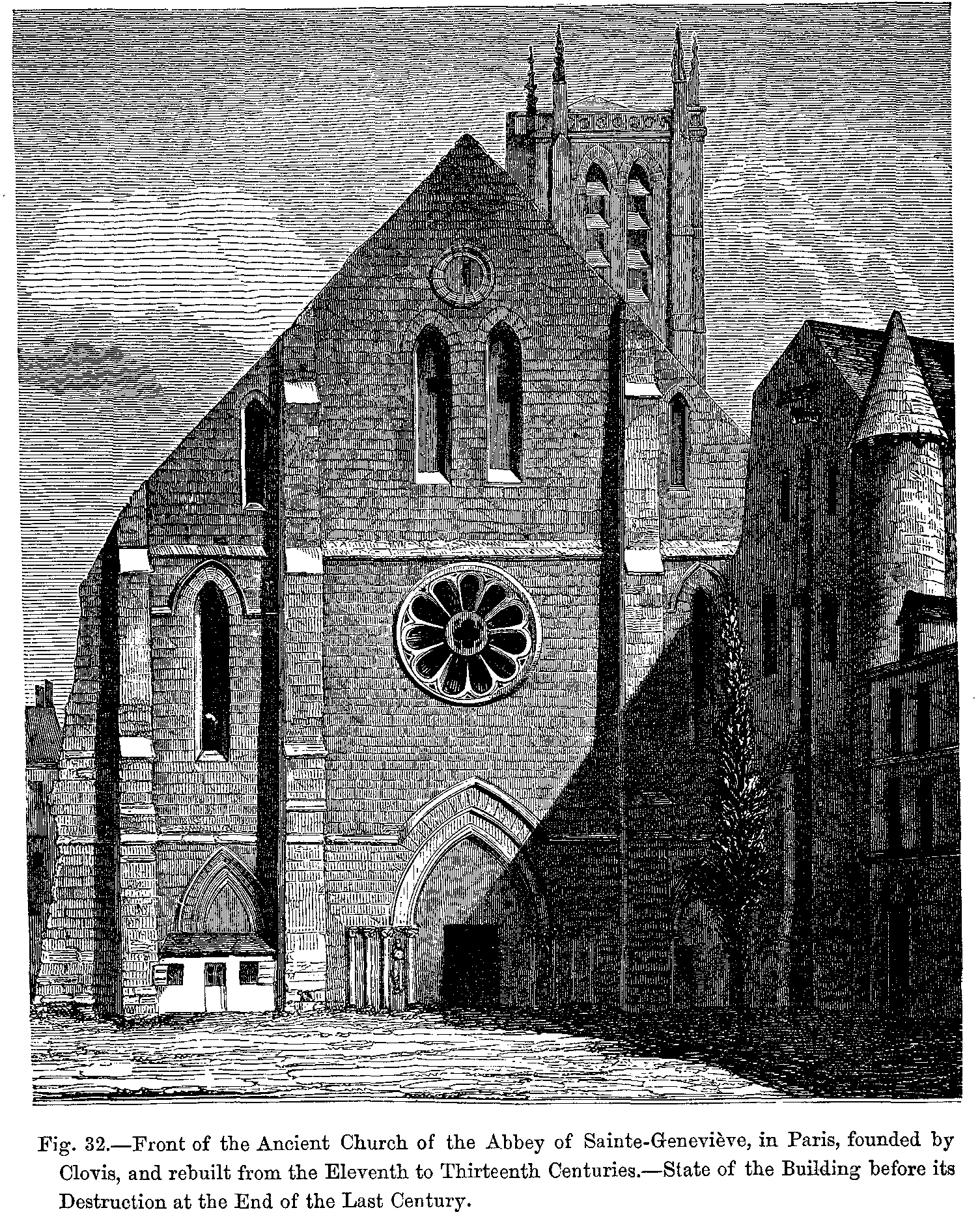 Front of the Ancient Church of the Abbey of Sainte-Geneviève, in Paris, founded by Clovis, and rebuilt from the Eleventh to Thirteenth Centuries.--State of the Building before its Destruction at the End of the Last Century.